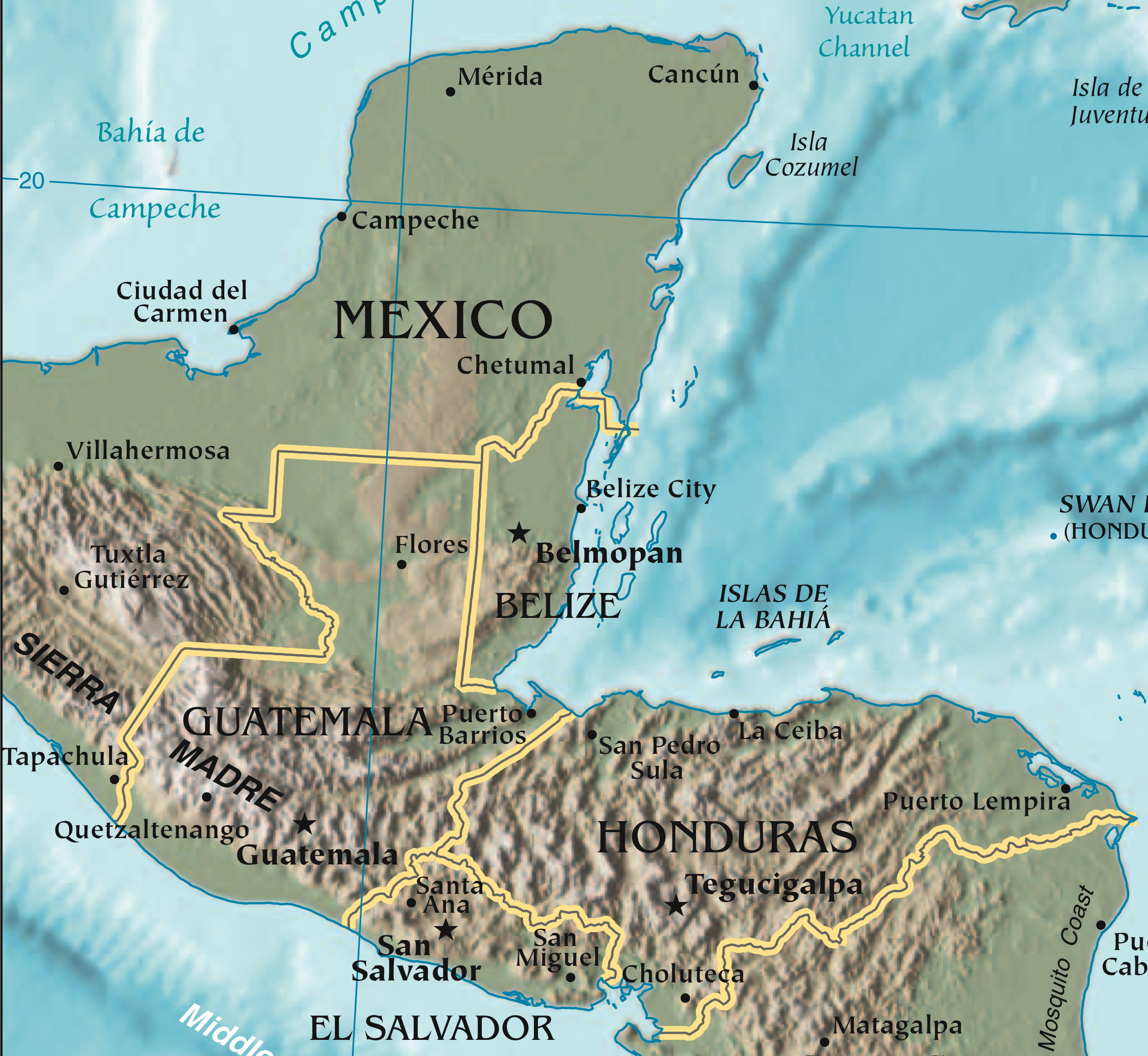 Topographic map of Northern Central America